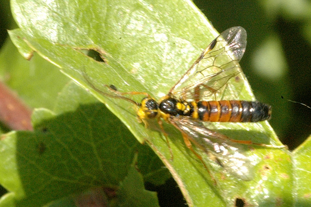 Tenthredopsis nassata from Commanster, Belgian High Ardennes .